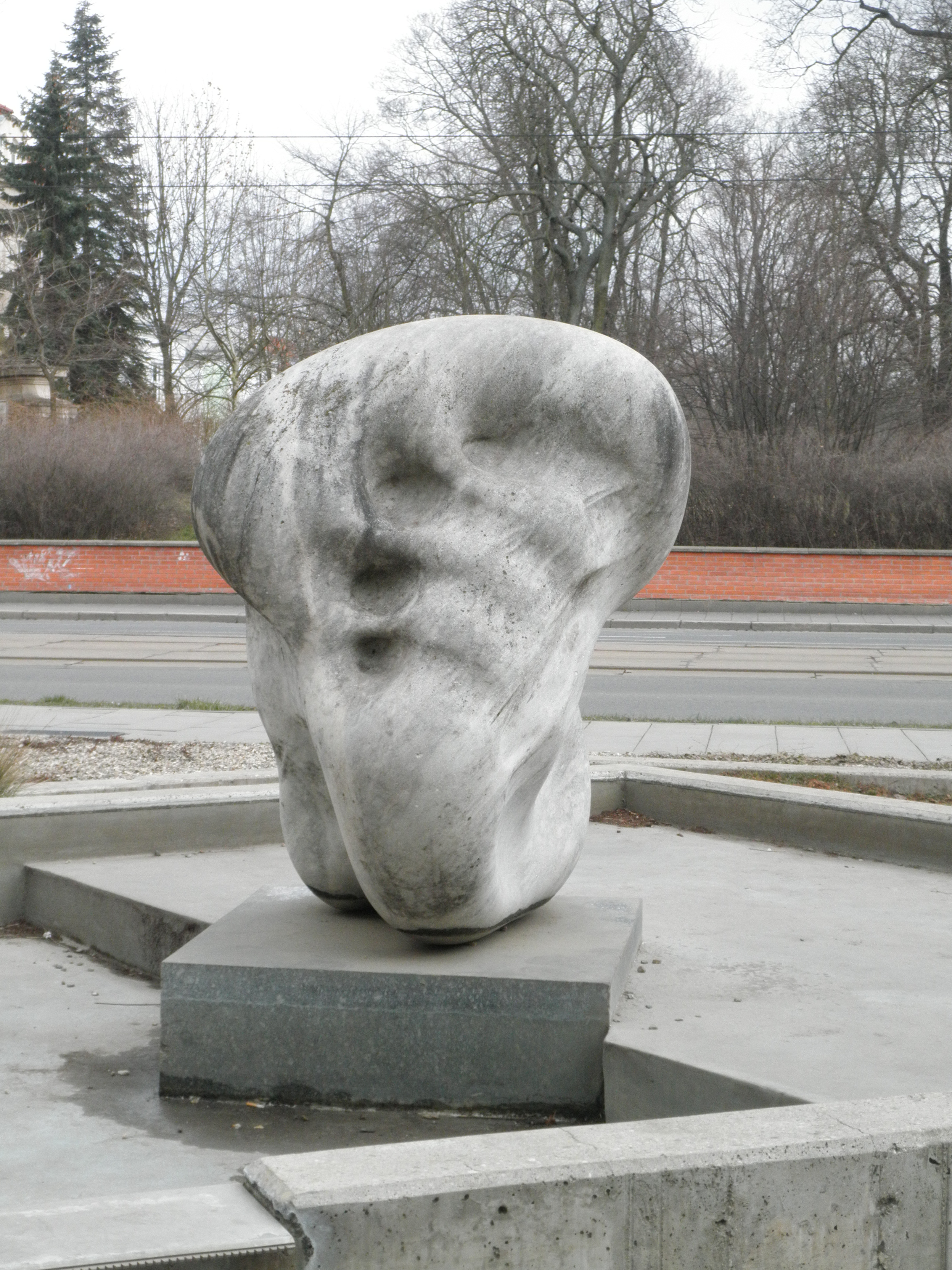 Statue Hands IV (Ruce IV) in Palackého street in Olomouc. The statue was made by Josef Klimeš in 1968.